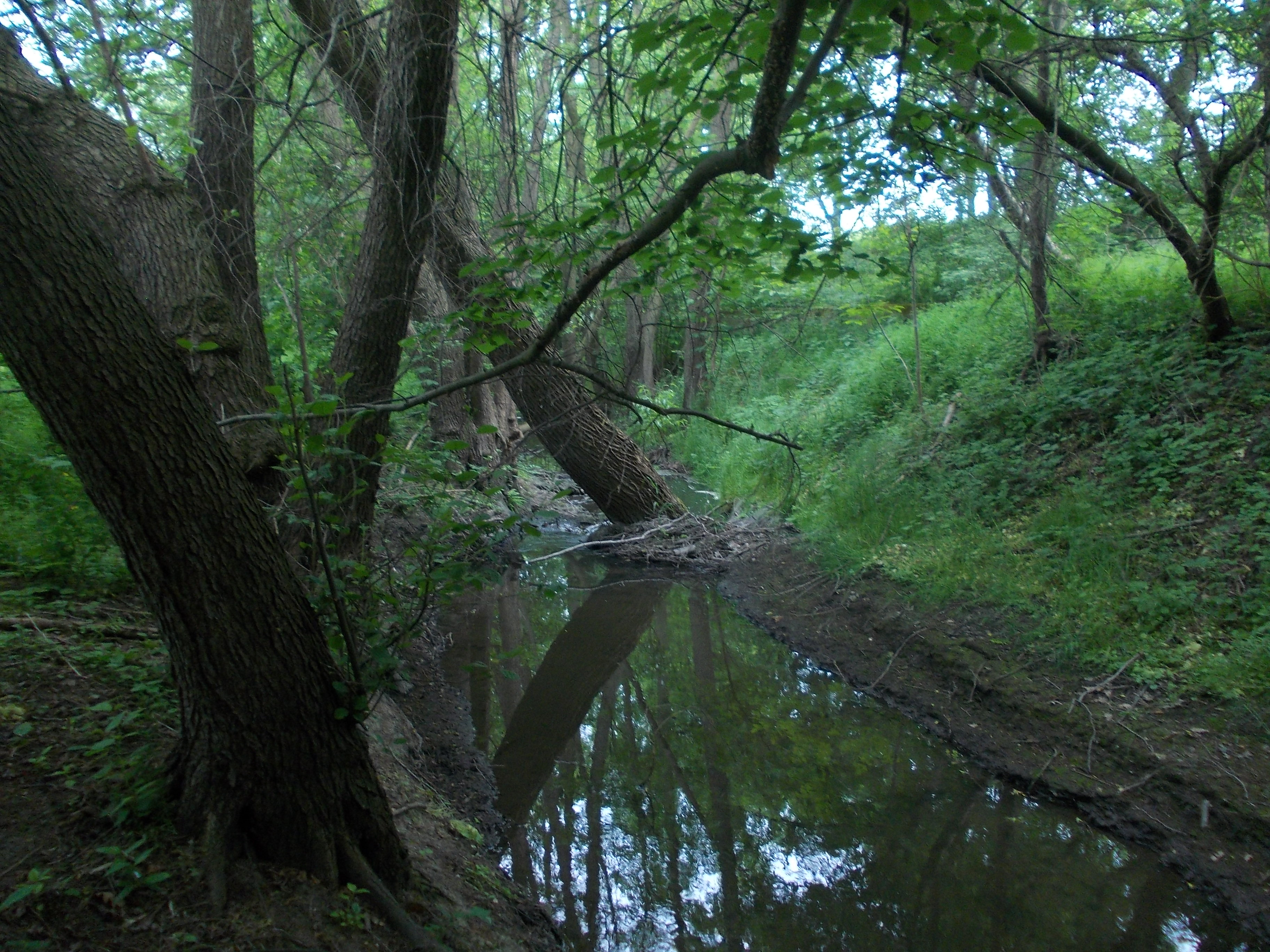 In the Mühlbach valley near Dehnitz (Wurzen, Leipzig district, Saxony), Wachtelberg-Mühlbachtal nature reserve